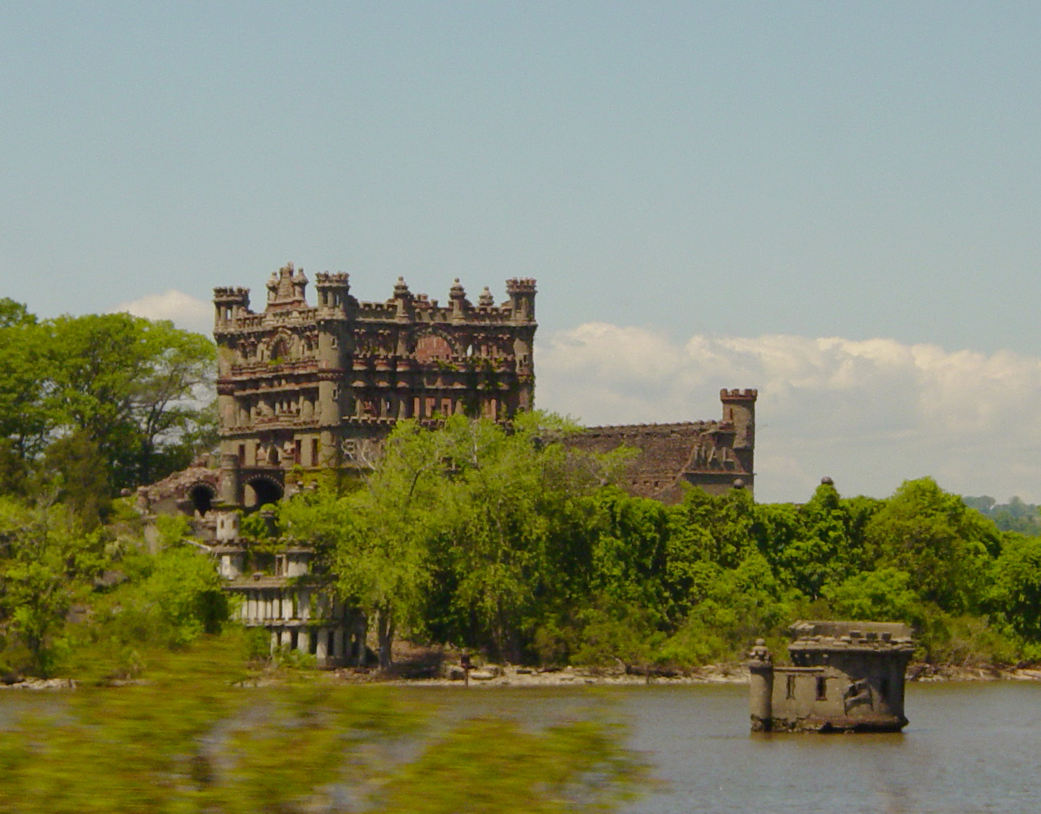 Bannerman's Castle on Pollepel Island from the left bank of the Hudson River